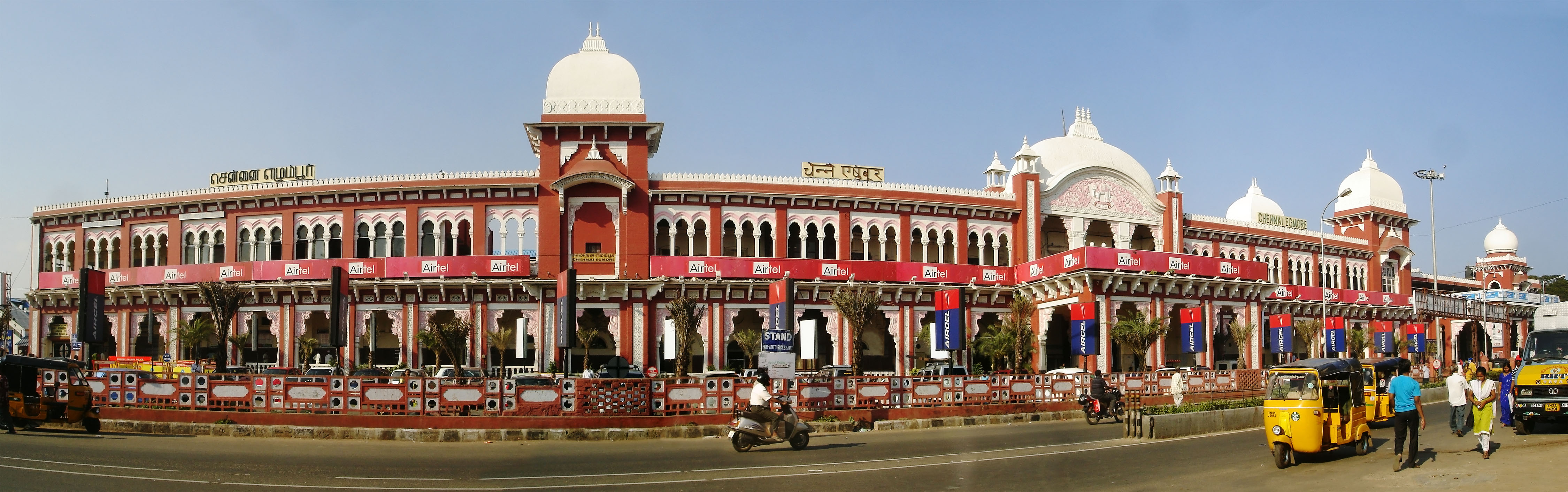 A panoramic view of the facade of Chennai Egmore Railway station